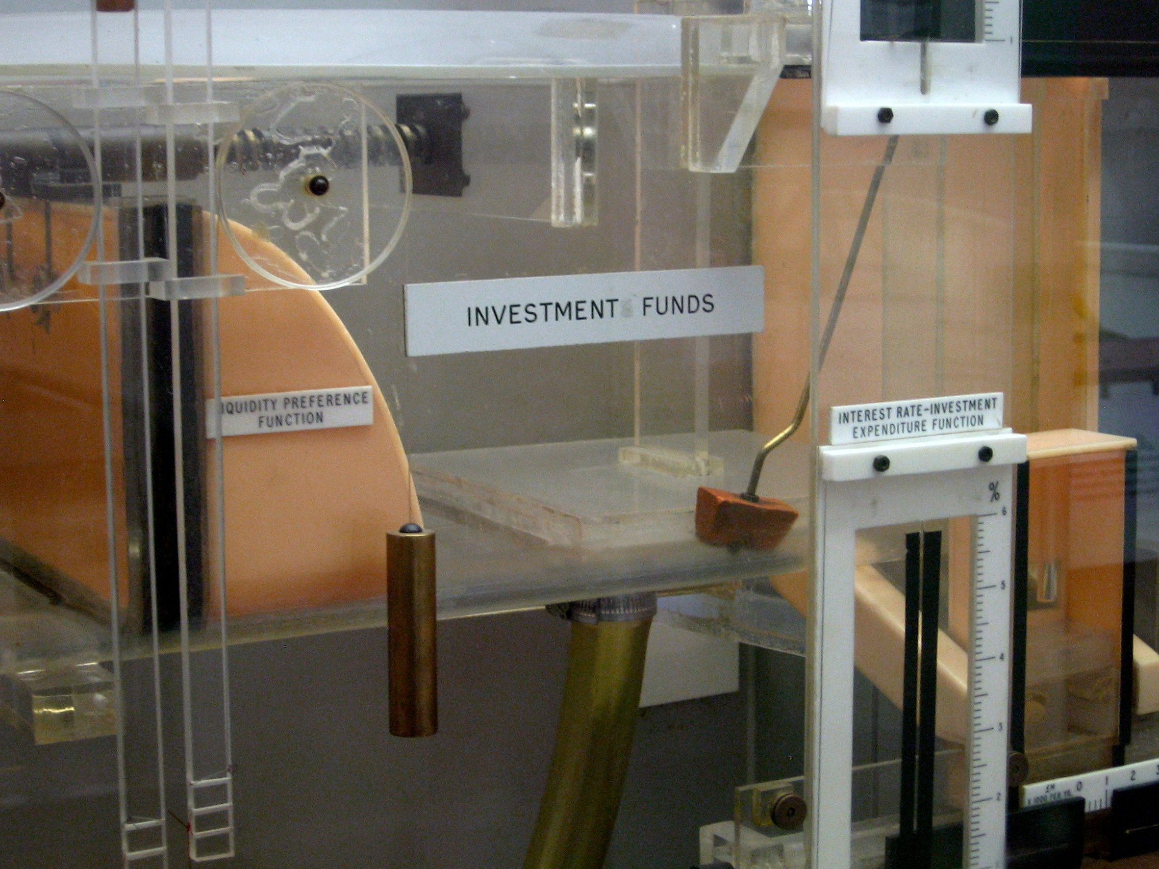 Science Museum